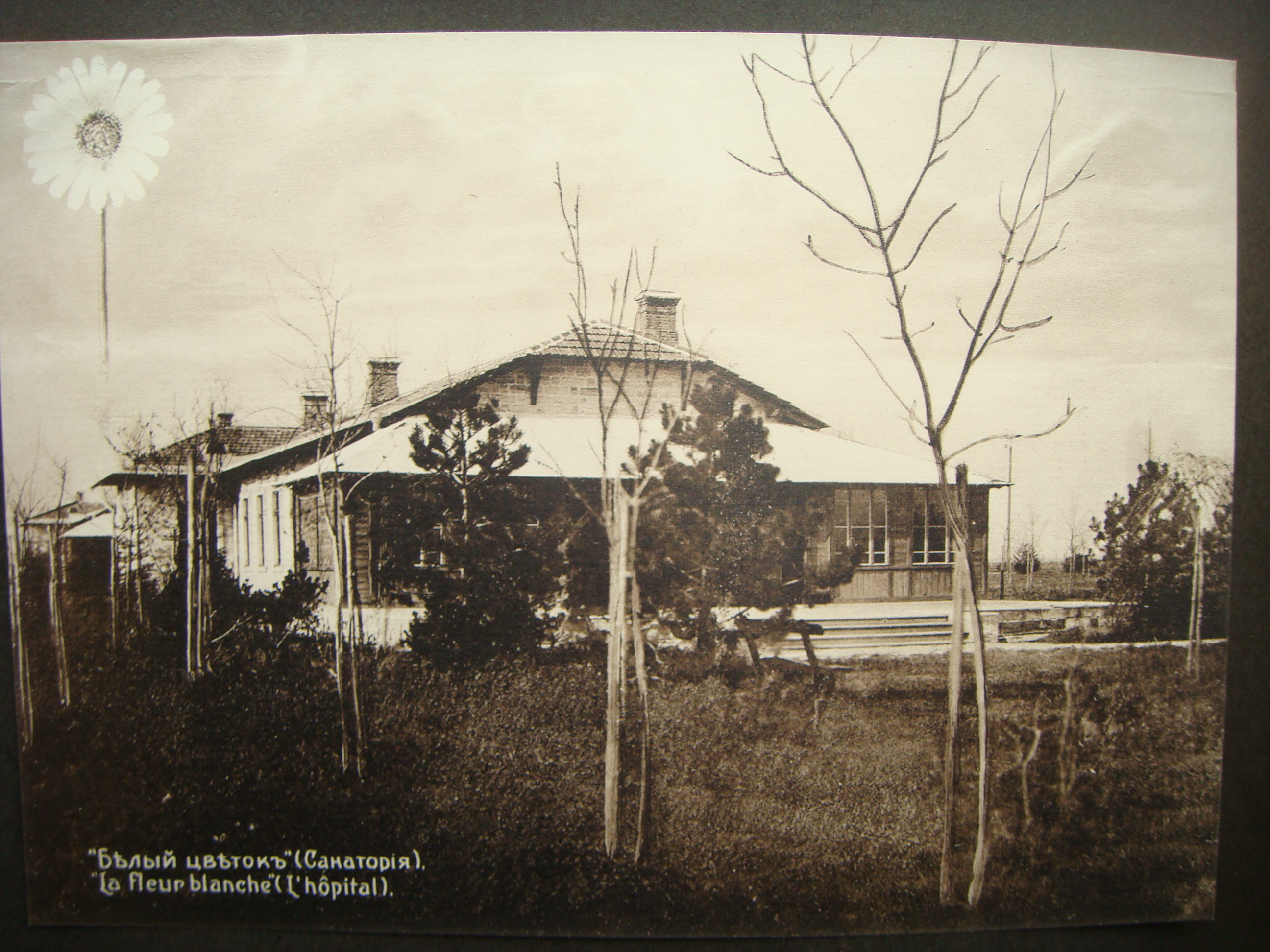 This is photo view of Odessa from Souvenir Photo Album published in Odessa circa early XX century.